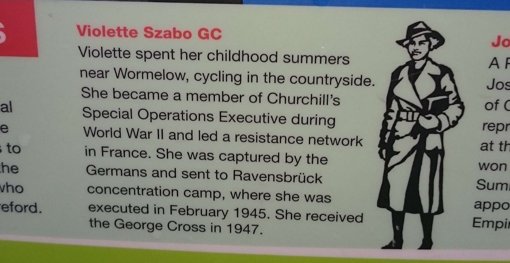 Portrait bench plaque description on Violette Szabo GC